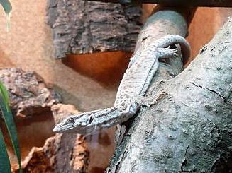 Varanus gilleni female